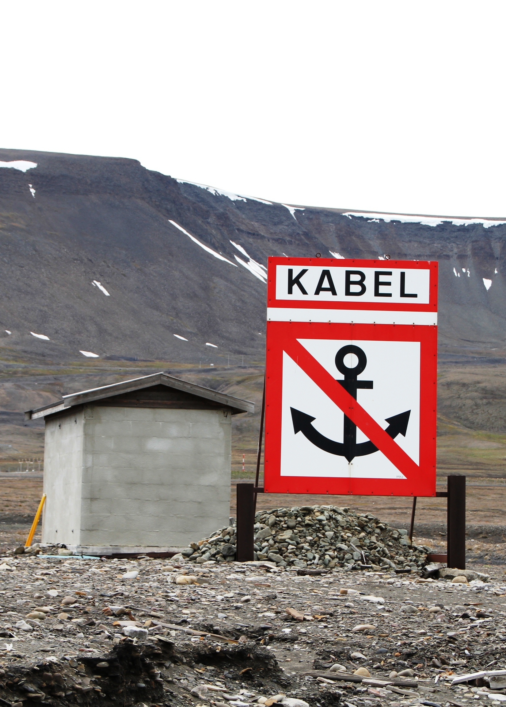 The Norsk Romsenter Eiendom fibre cable from Svalbard (Longyearbyen) to Norway (Harstad), as it enters the Isfjorden waters at 78 degrees North.